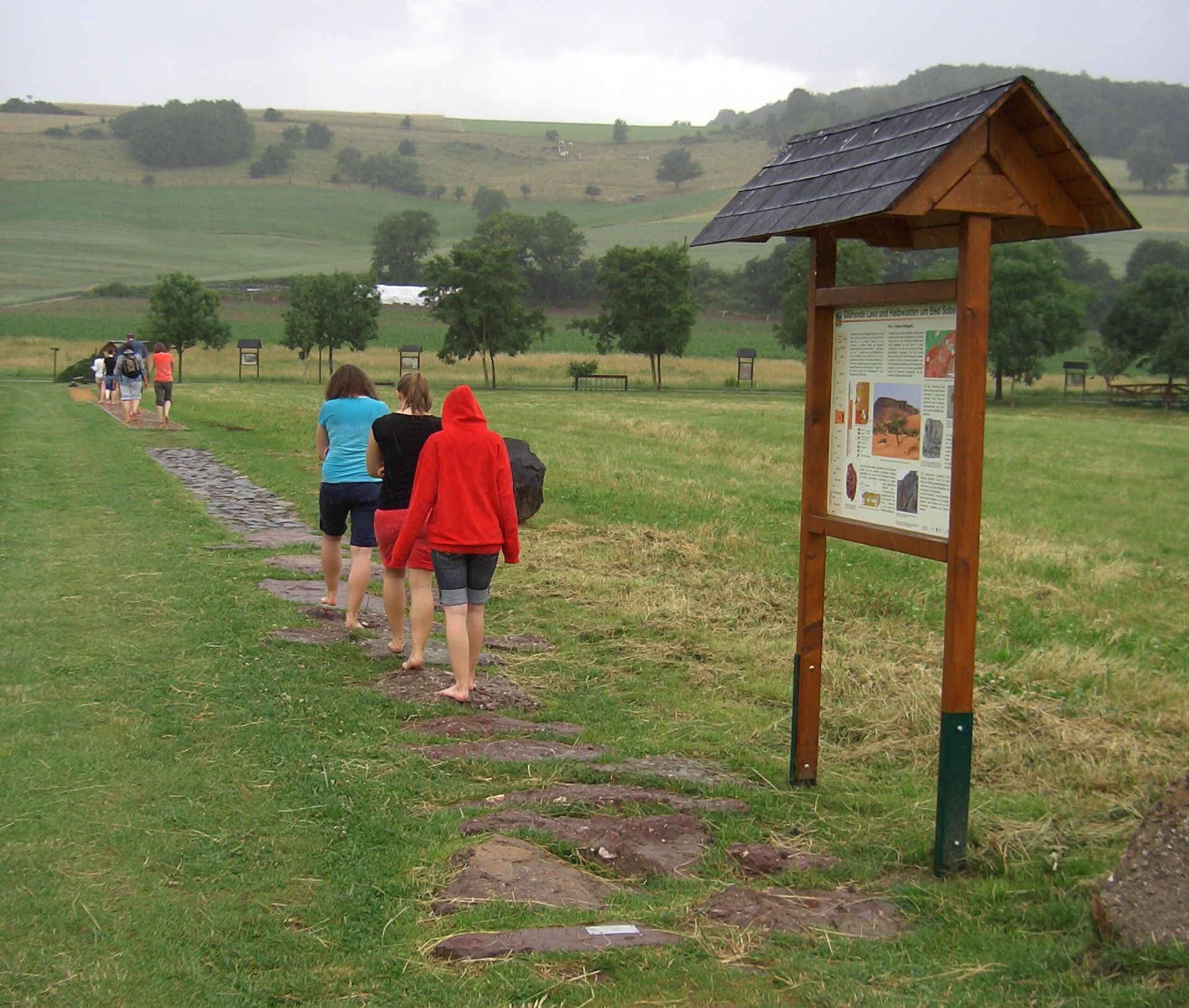 Barefoot trail Bad Sobernheim, Germany